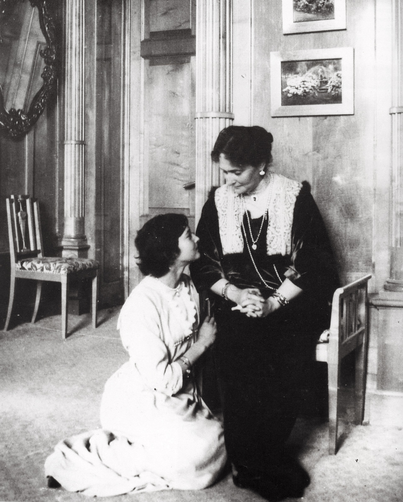 This photograph of Tsarina Alexandra of Russia with her daughter Grand Duchess Tatiana Nikolaevna of Russia in 1913 is from a posting at Alexander Because of its age I believe it to be in the public domain. If I am mistaken, please delete the photograph.